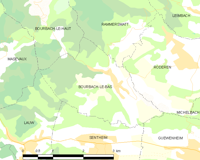 Map of French municipality